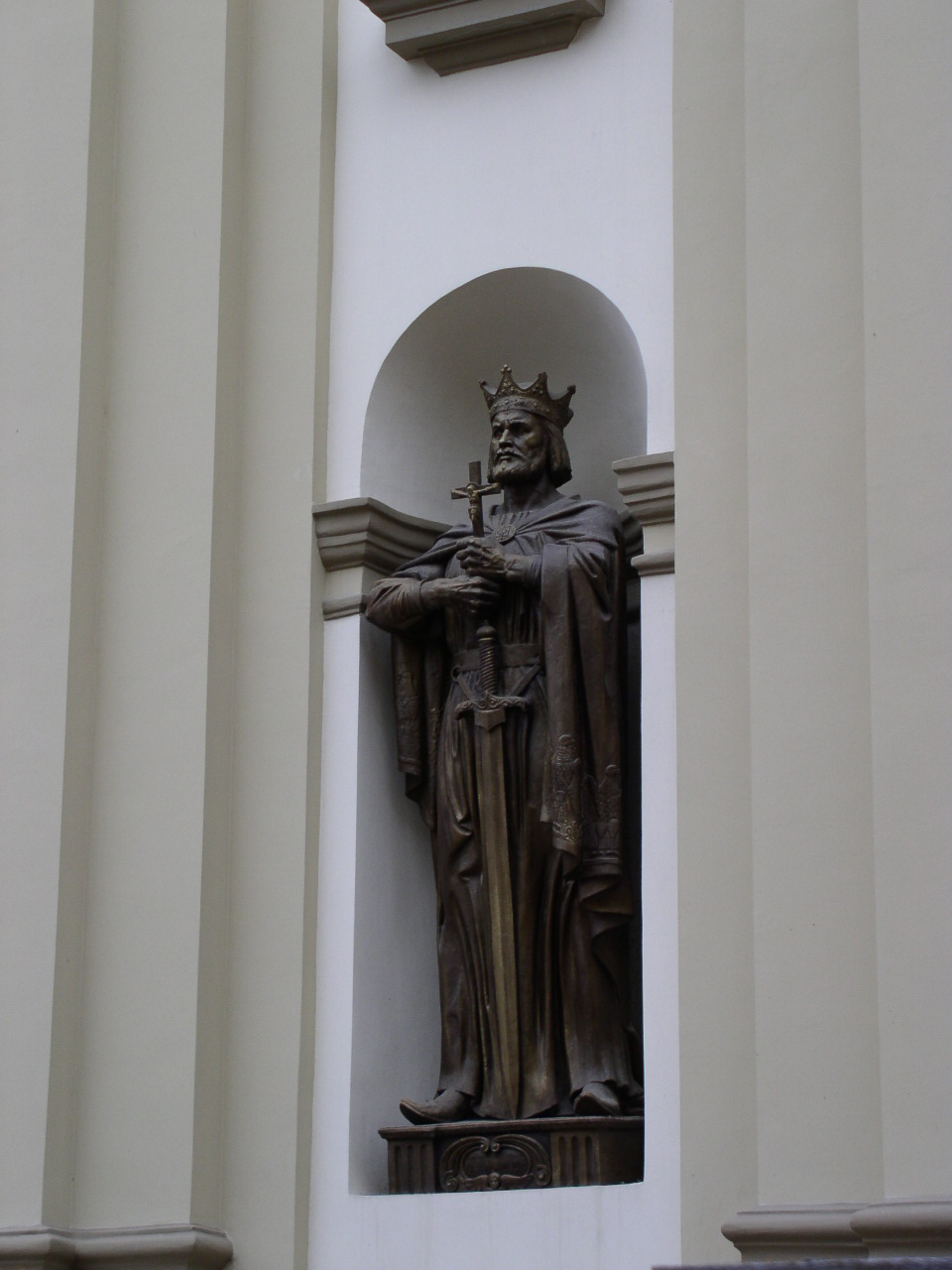 A sculpture of St. Volodymyr the Great, who converted Ukraine-Ruthenia. Cathedral of the Holy Resurrection, Ivano-Frankivsk, Ukraine.